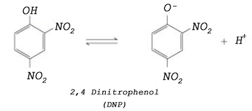 Dinitrophenol - DNP